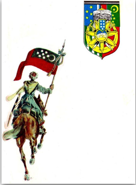 Rider with banner of_North_Caucasus and Coat of arms of Daghestan